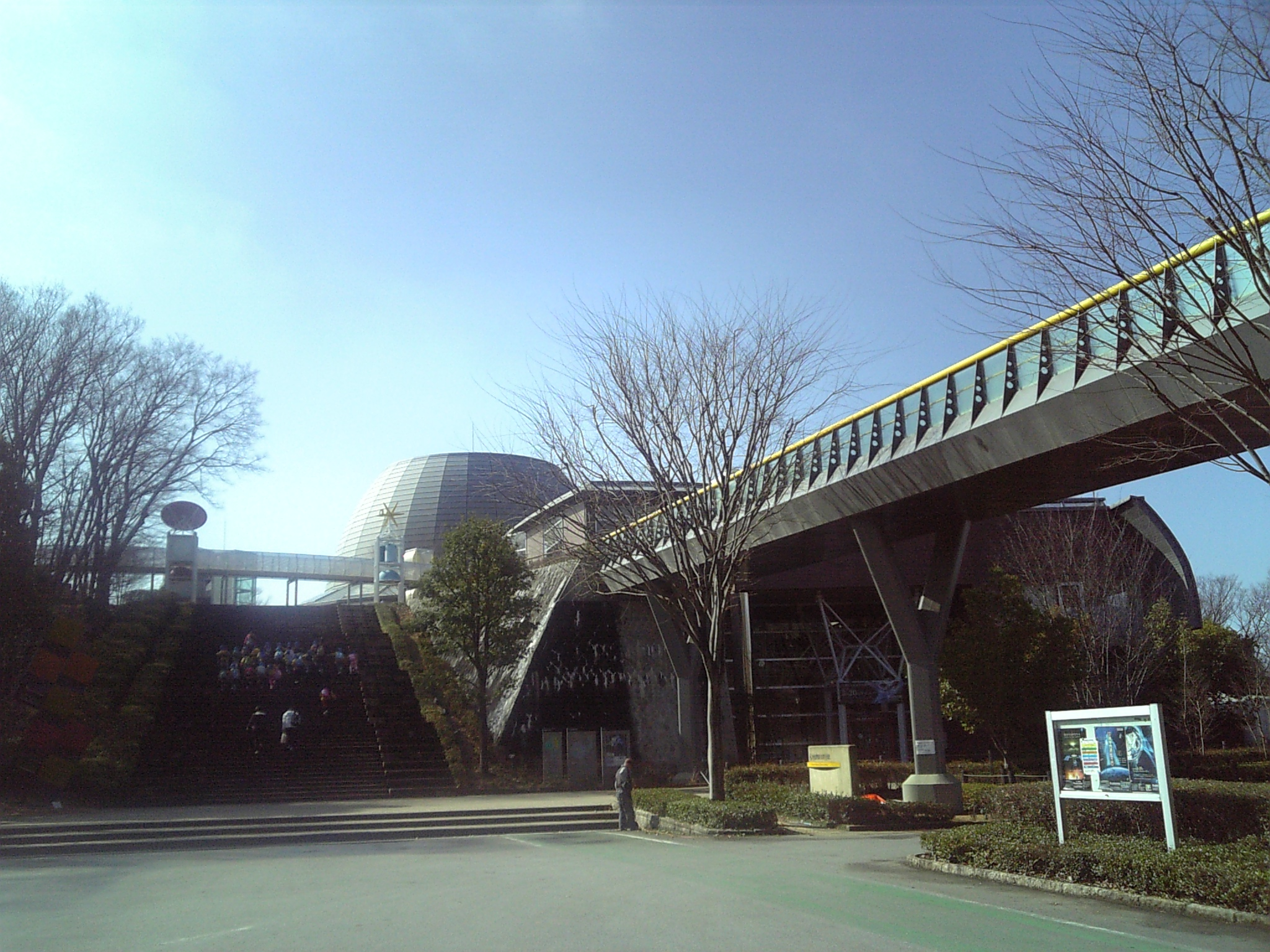 Yamanashi Prefectural Science Center